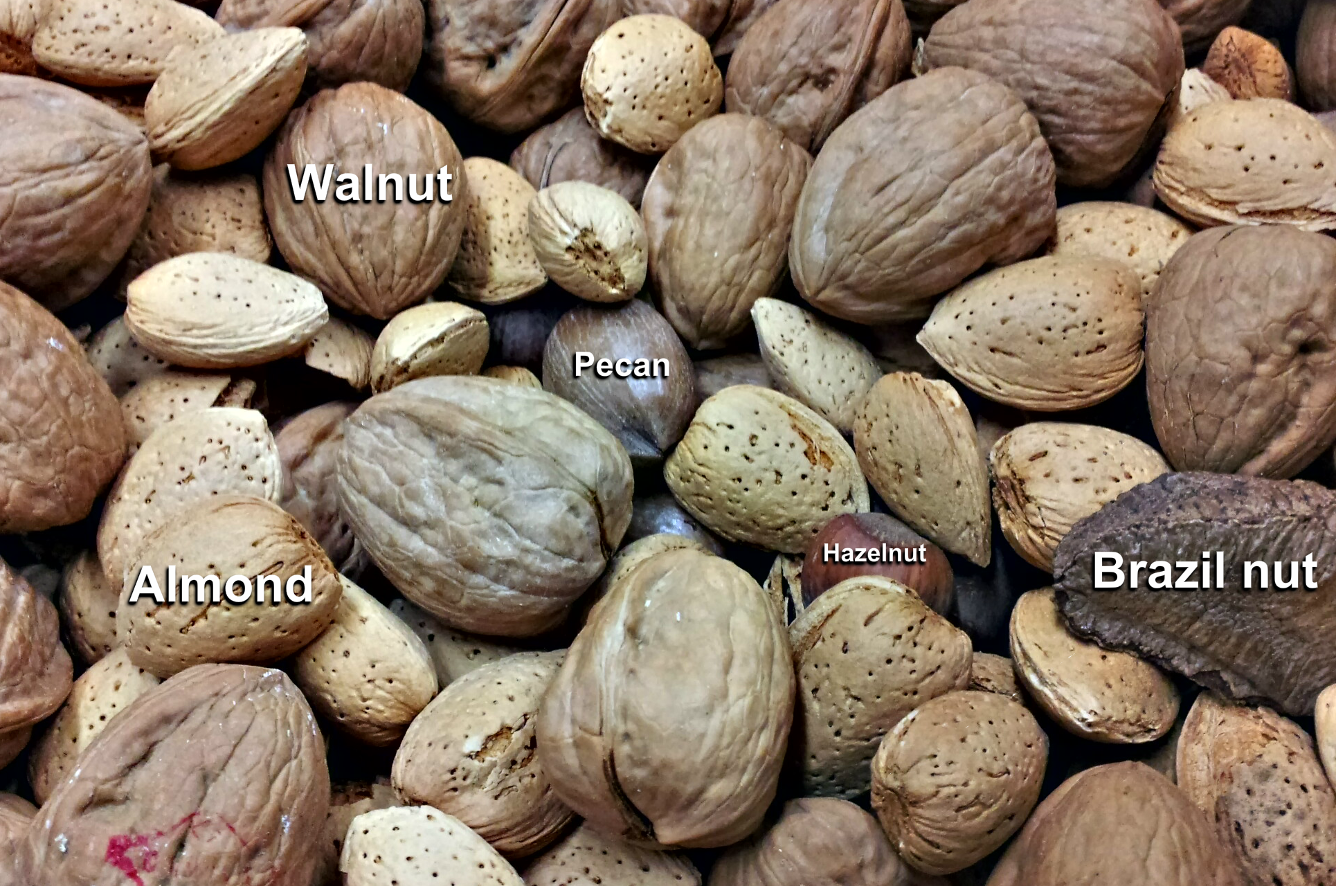 An HDR treatment of three pics I took, featuring Walnuts, Pecans, Almonds, Hazelnuts, and Brazil nuts. I'm sure we all agree that Pecans rule.